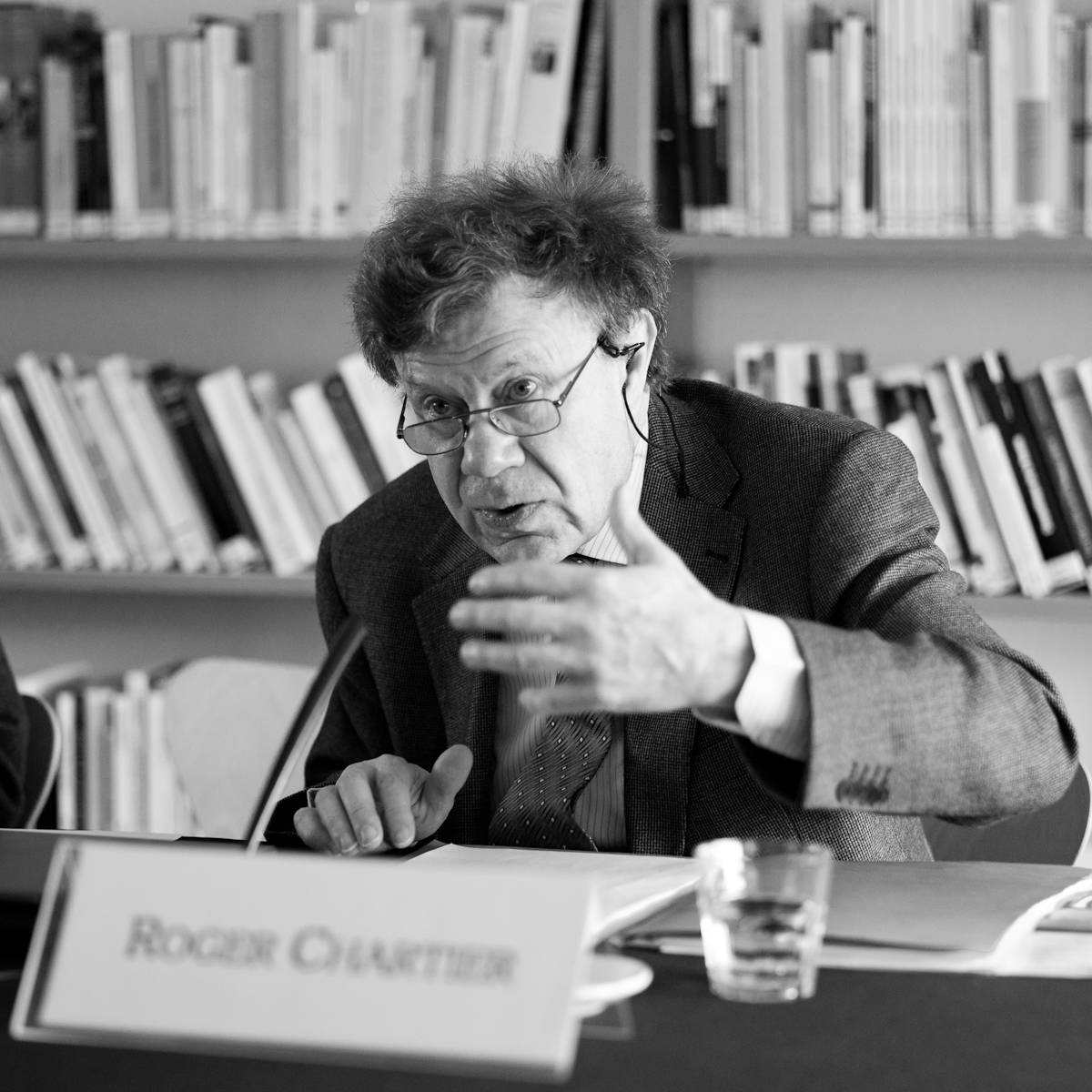 French historian Roger Chartier (at CEFRES, Prague, Czech Republic, 5.5.2011)